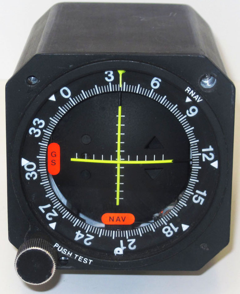 ILS Analogic